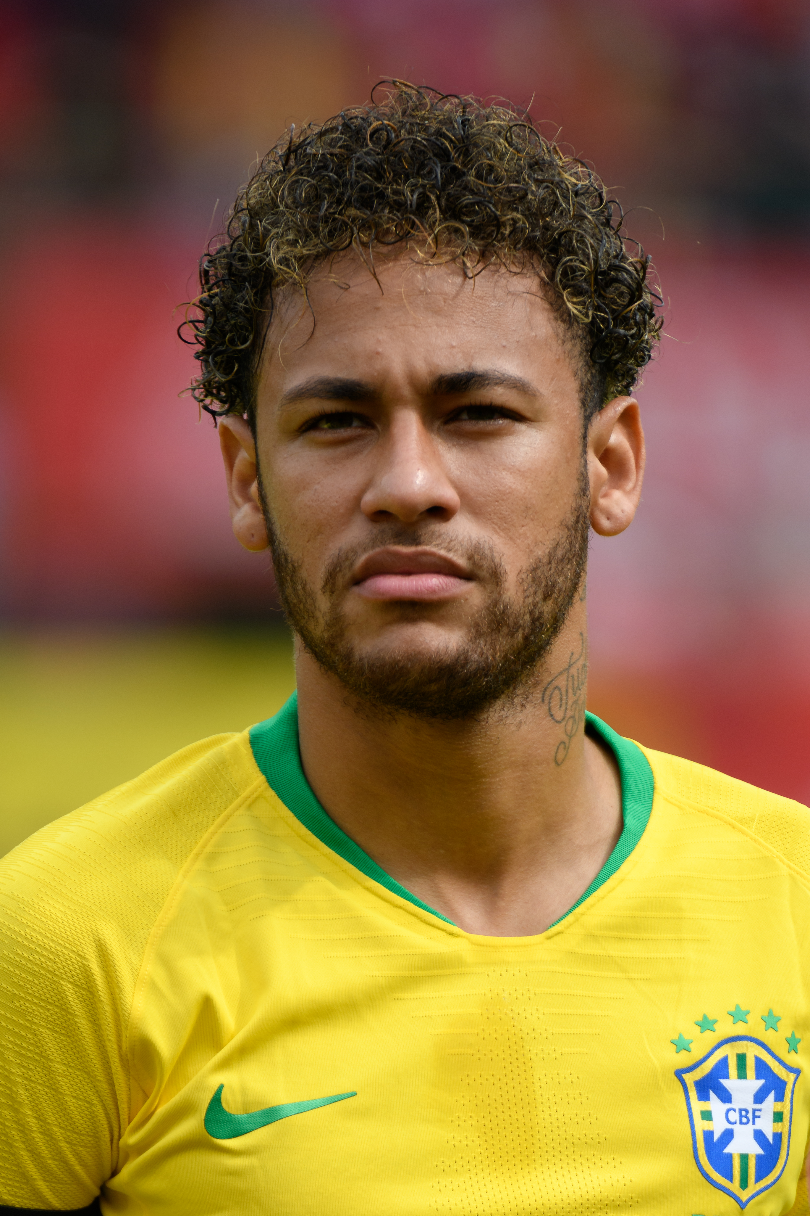 FIFA Friendly Match Austria vs. Brazil 2018/06/10 in Vienna/Ernst-Happel-Stadium. Picture shows Neymar (BRA).